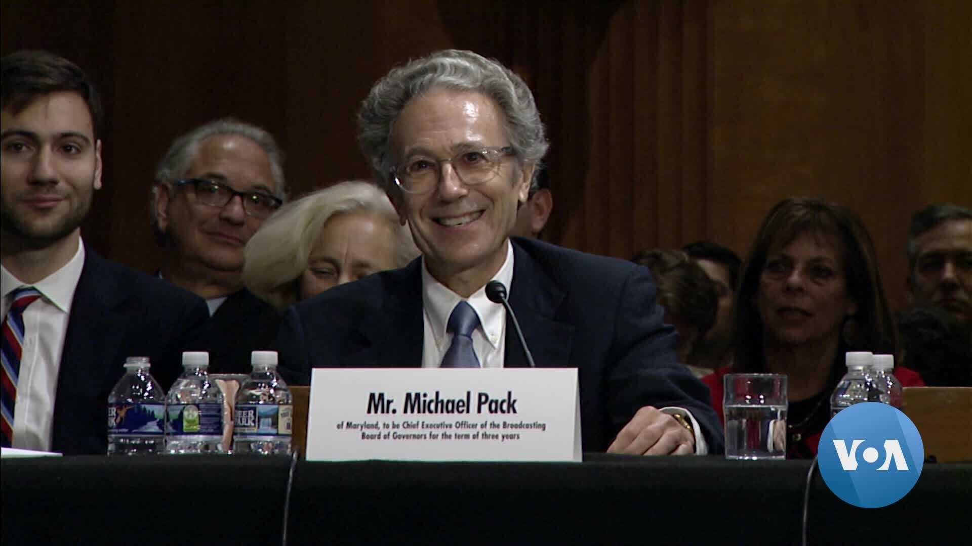 MPack hearing closeup